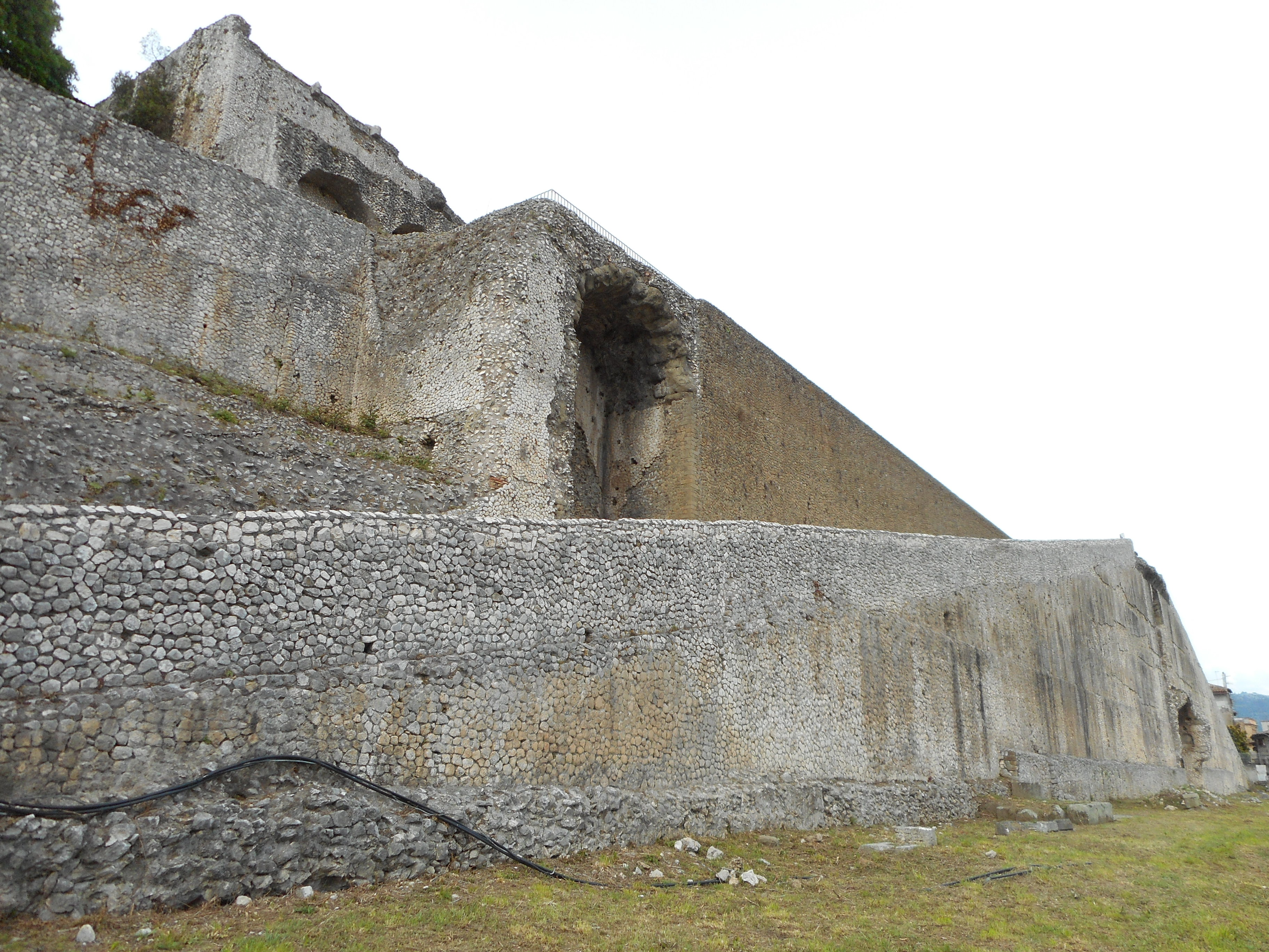 Palestrina - Sanctuary of Fortuna Primeval : view of the left ramp